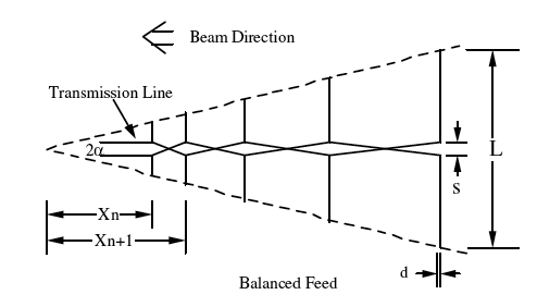 Log Periodic Antenna en:/Images